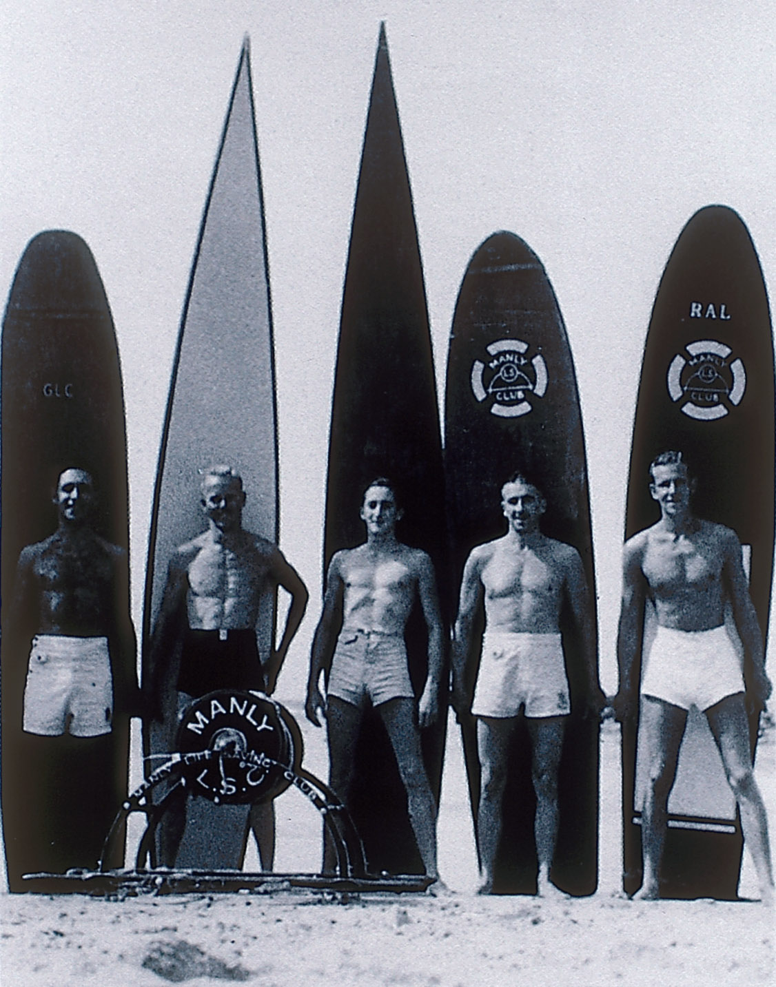 Photograph, 'Boys and their boards - Geoff Cohen, Harry Wicke, Jim Austin, Lou Morath, Ray ?'. Manly Beach, New South Wales, Australia. In this image five men stand in front of their upright surfboards, arms crossed, wearing swimsuits. The surf reel in the foreground features the Manly Life Saving Club logo. The Australian National Maritime Museum undertakes research and accepts public comments that enhance the information we hold about images in our collection. If you can identify a person, vessel or landmark, write the details in the Comments box below. Thank you for helping caption this important historical image. Photographer: Ray Leighton (1917 - 2002) Object number 00032014